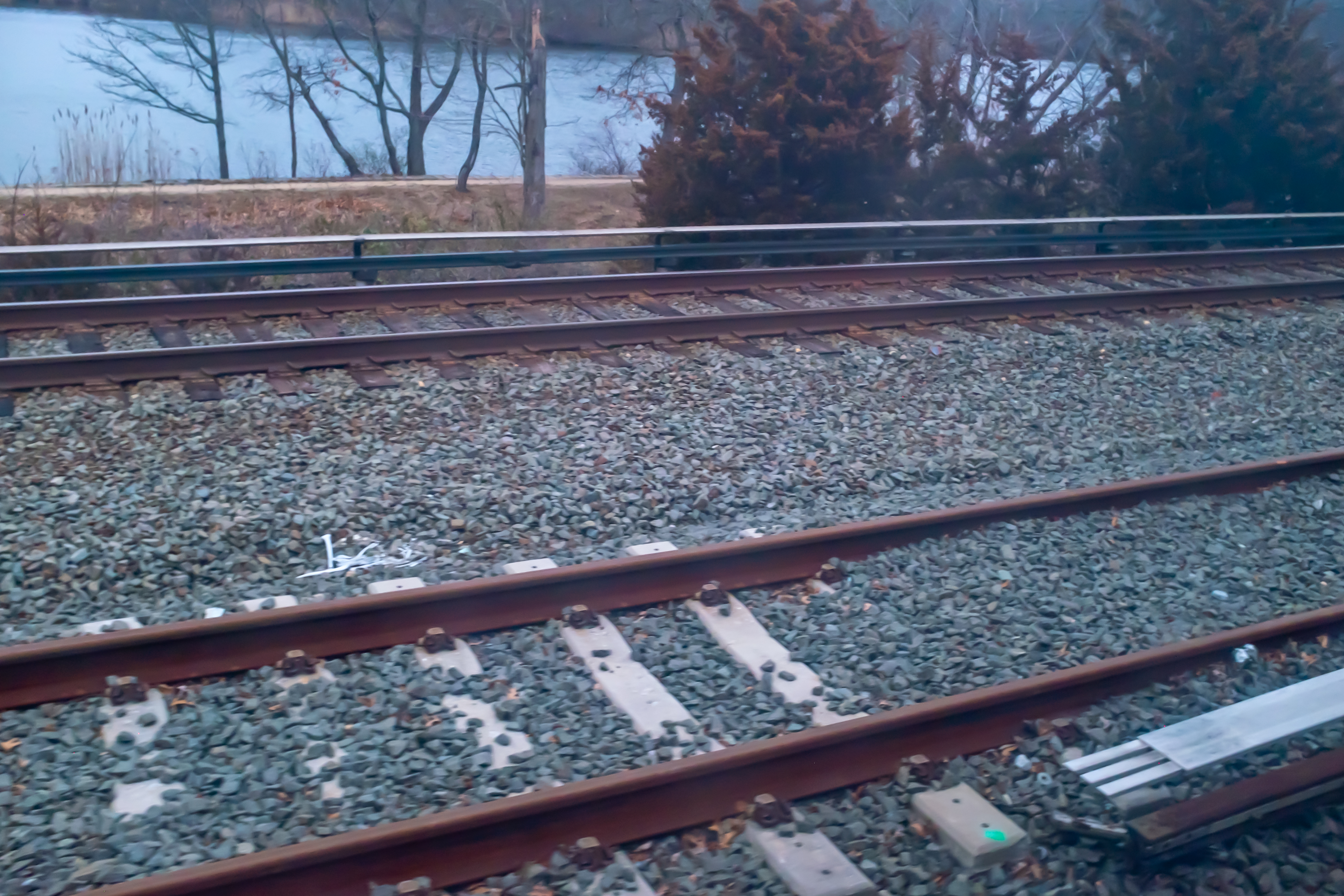 Massapequa Pocket Track. Note partially installed third rail (foreground). Massapequa reservoir in background.